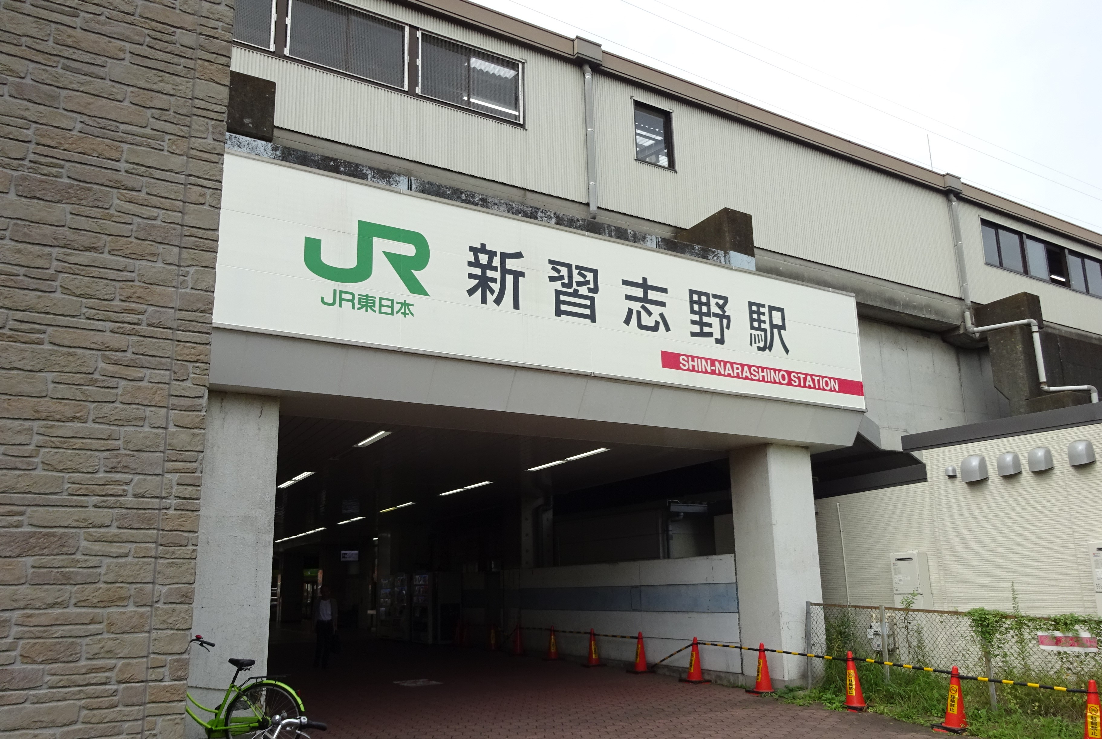 North entrance of Shin-Narashino Station